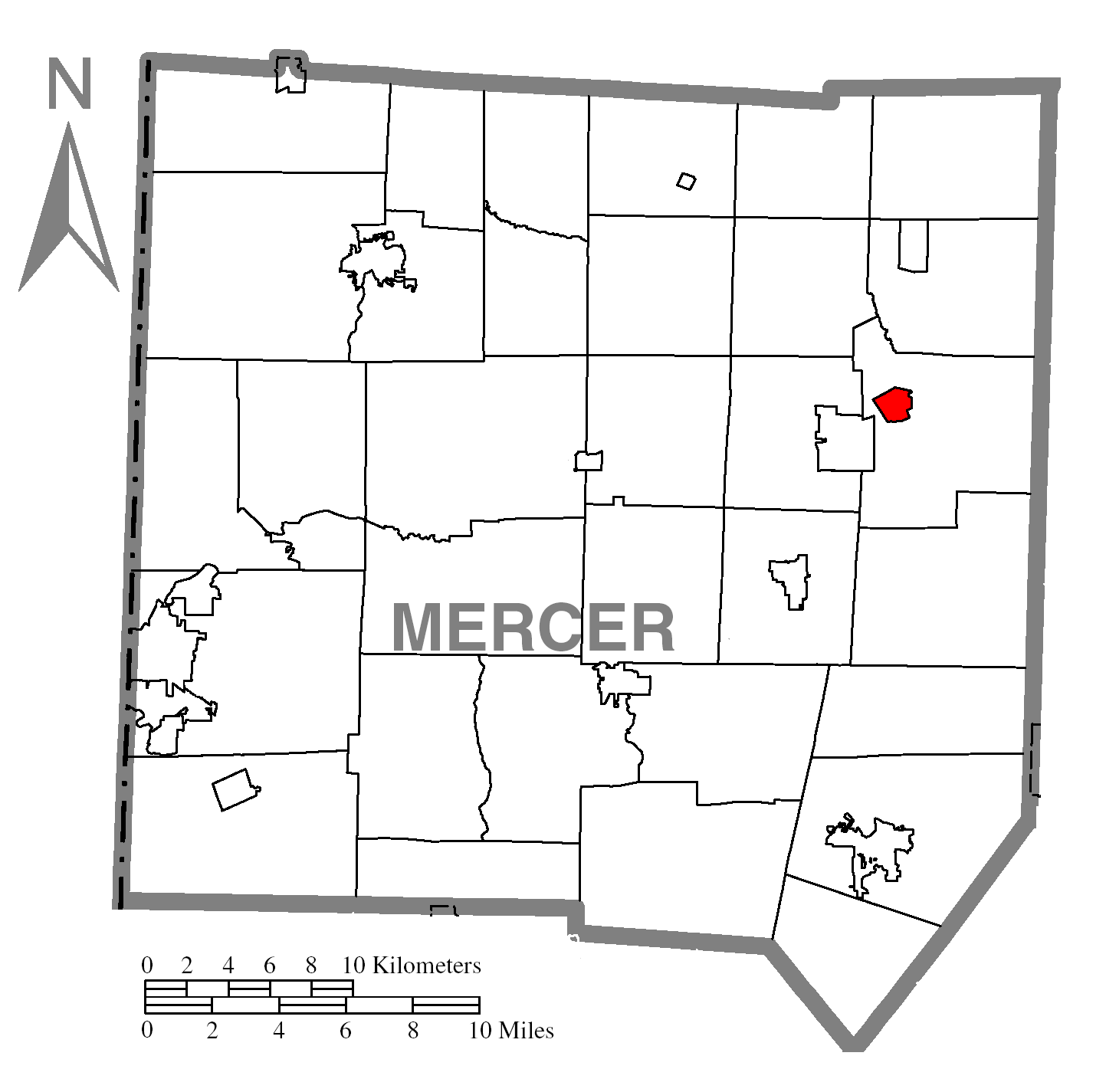 Map of Mercer County higlighting Sandy Lake.